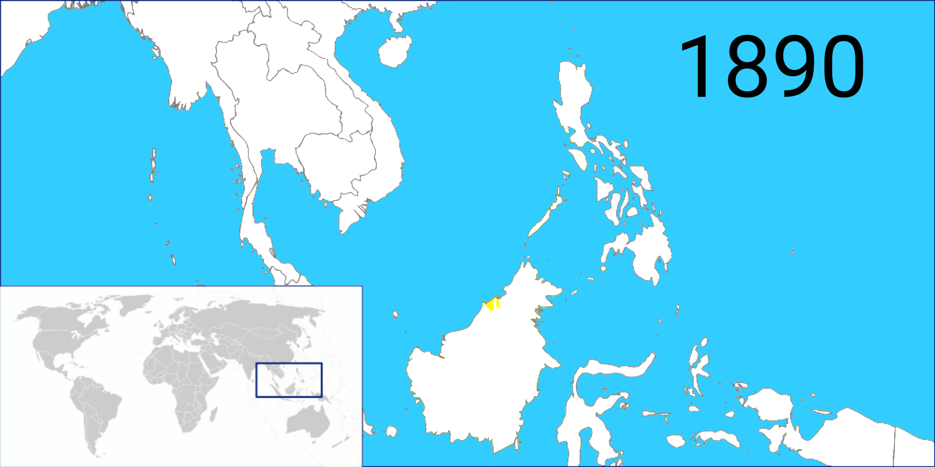 Brunei territories in 1890.